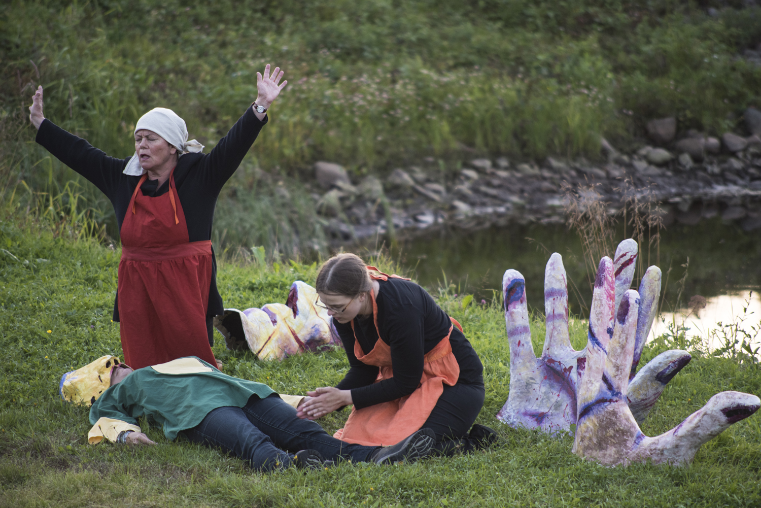 Lemminkainen in Tuonela, directed by Sam Kerson, performed in Ii, Finland From left to right: Sanna Kuovisto, Katah, Eve Rikenen.